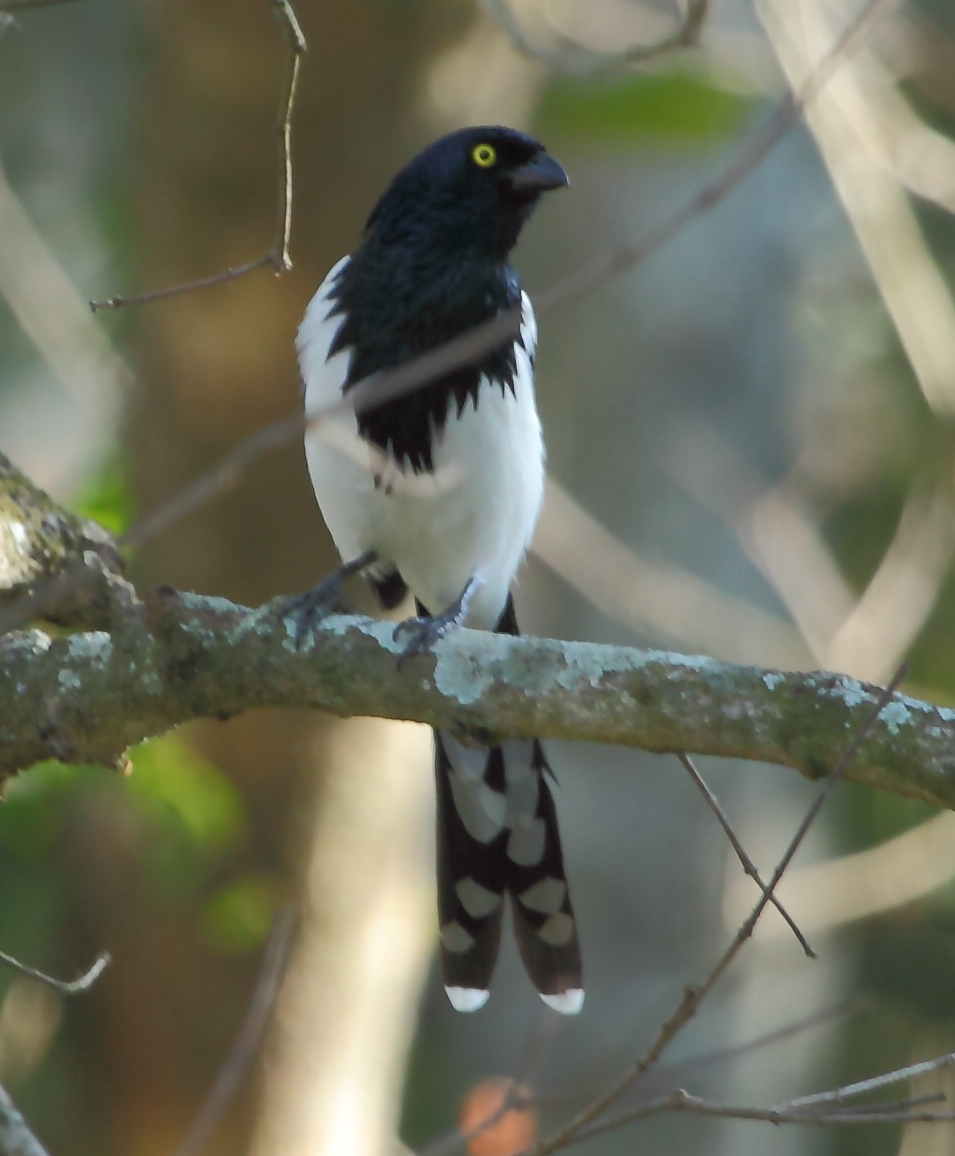 Magpie Tanager at Dourado - SP - Brazil